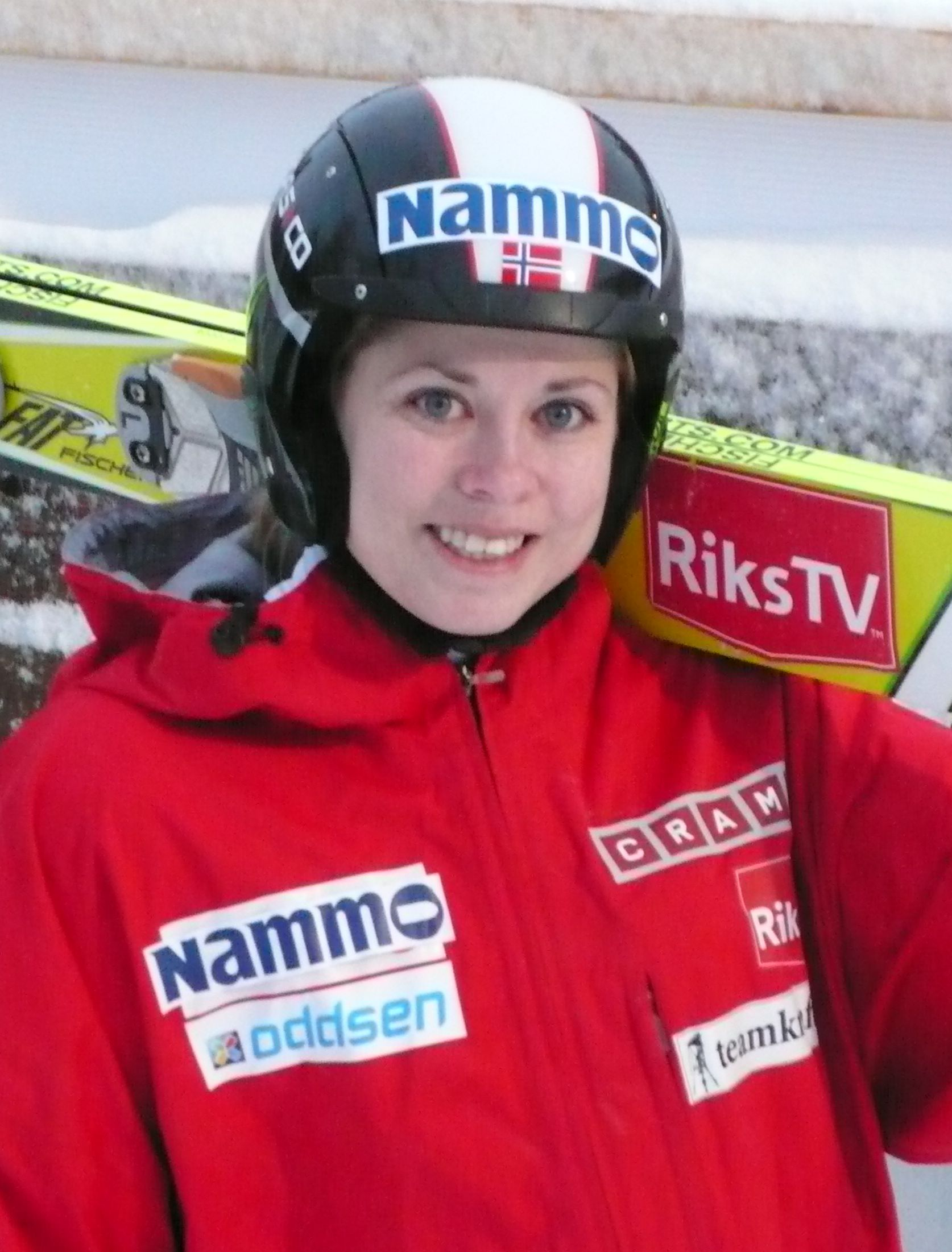 Anette Sagen